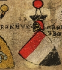 Coat of arms of the barons of Bechburg